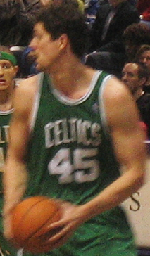 Milwaukee Bucks vs Boston Celtics - January 29th, 2006 Raef taking the ball out of bounds.